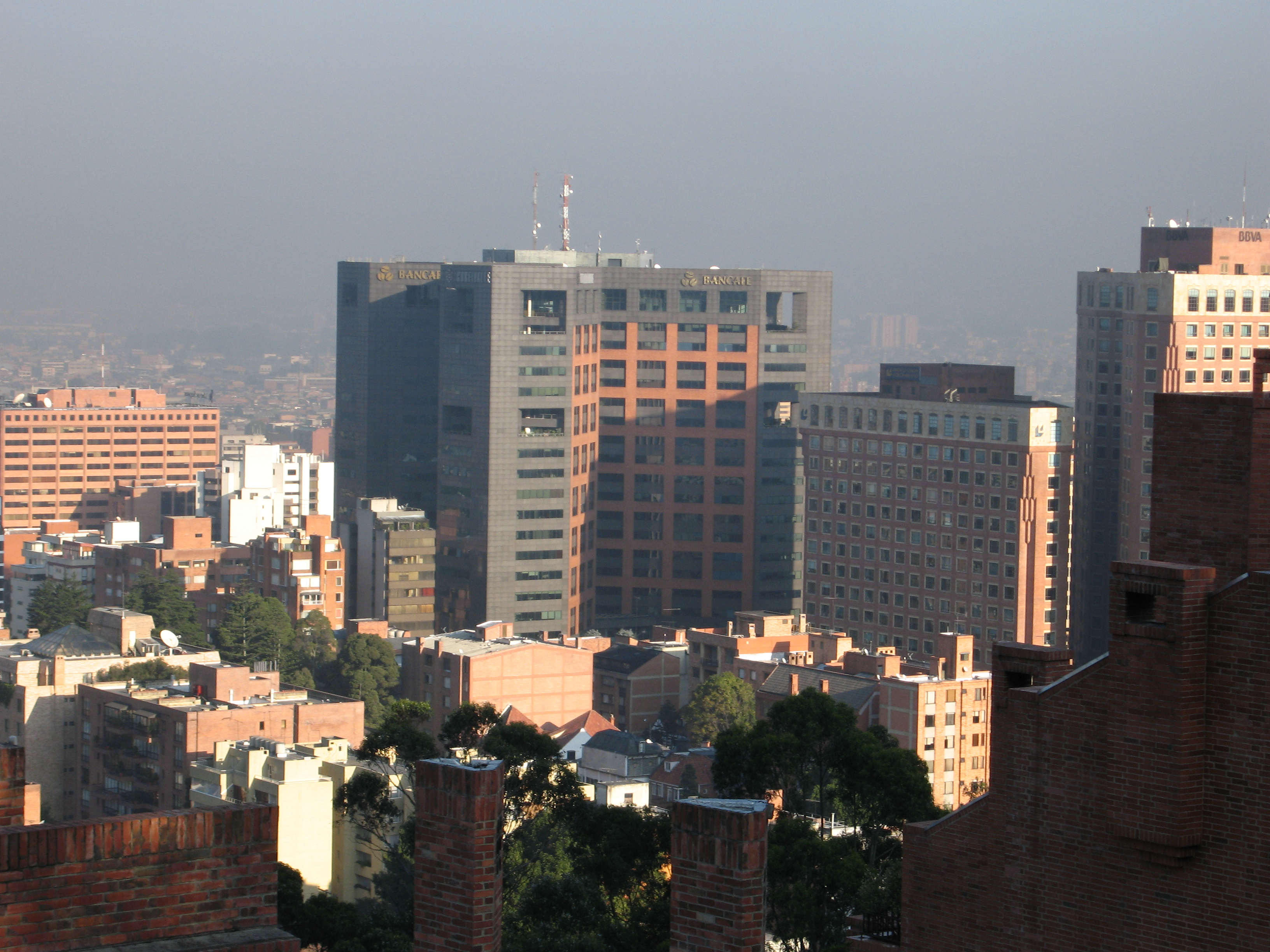 Bogota's Financial District at Avenida Chile and Carrera Septima.